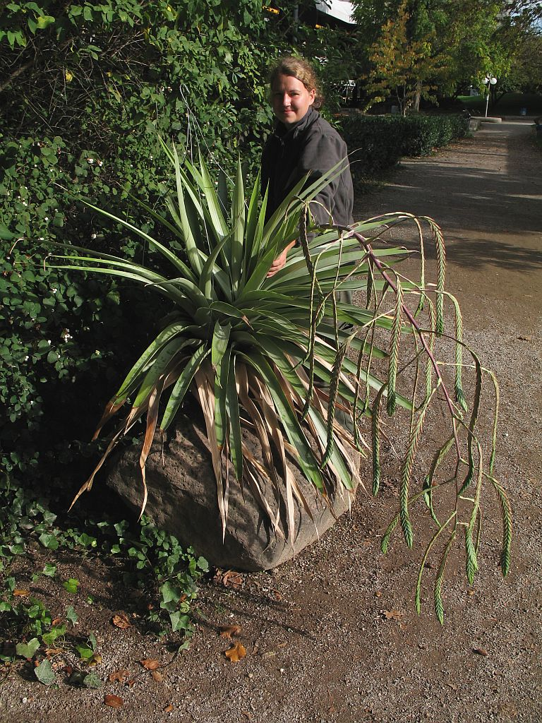 Tillandsia ferreyrae, in cultivation at the Botanical Garden of Heidelberg, Germany.